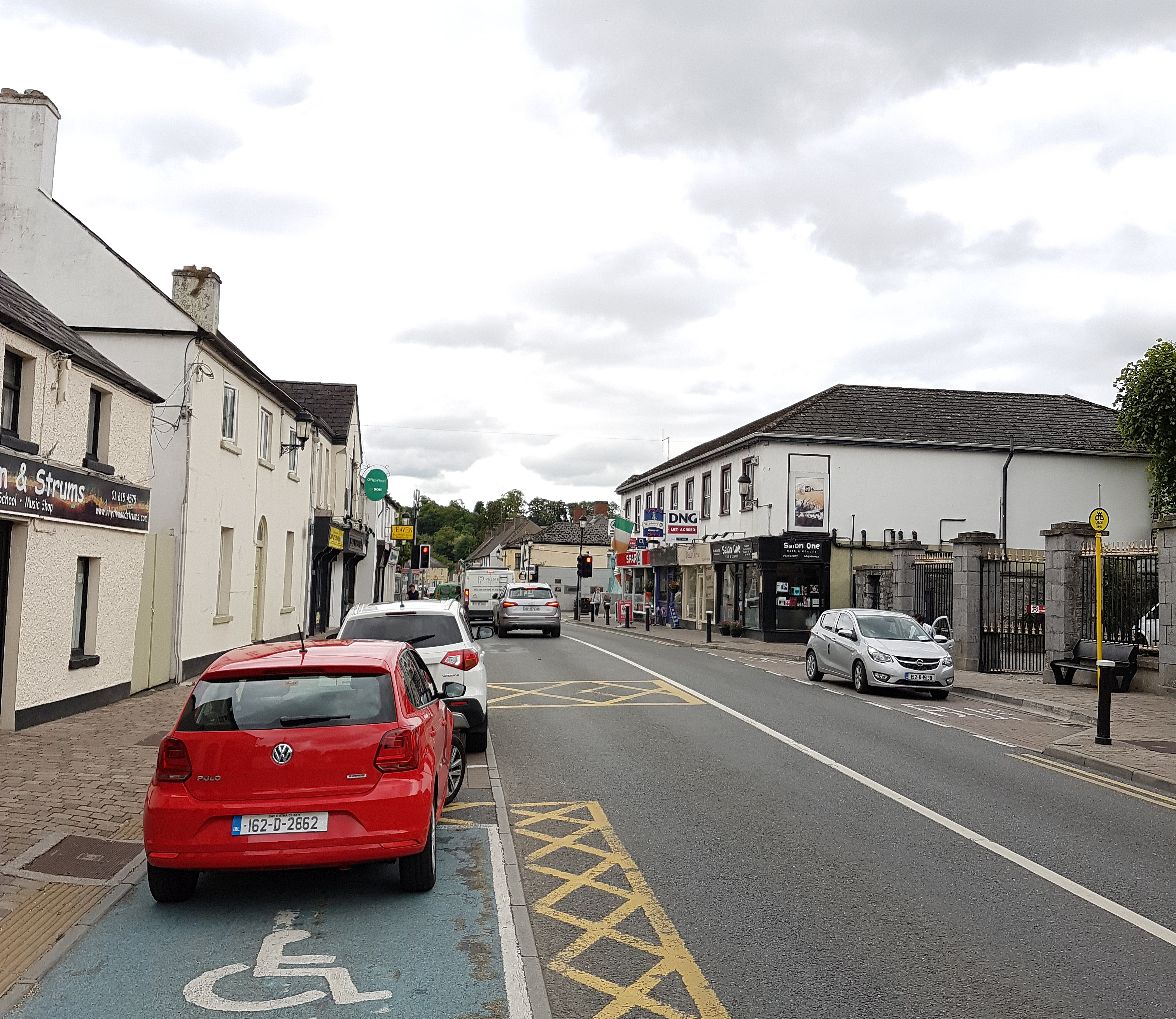 Main Street in Leixlip, County Kildare, Ireland.